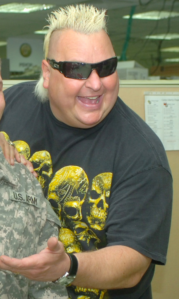 CAMP LIBERTY, Iraq - Brian "Nasty Boy" Knobbs visited Soldiers throughout Iraq in the Army Morale, Welfare and Recreation program which sponsored the "Legends and Divas of Wrestling Tour", with Jimmy "Mouth of the South" Hart and Greg "The Hammer" Valentine.